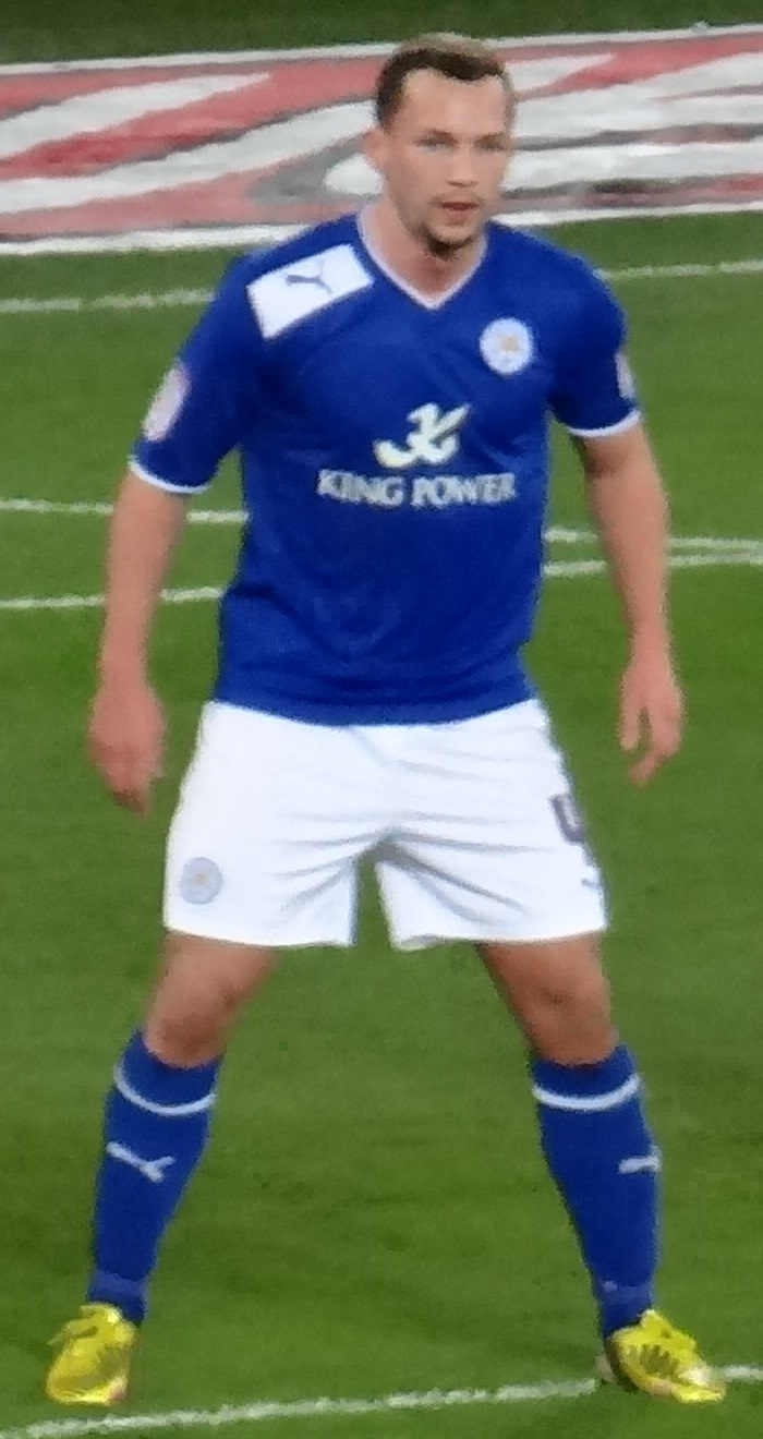 12/03/13 Cardiff v Leicester, Championship, Cardiff City Stadium, Cardiff, Wales